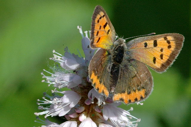 Picture taken in Commanster, Belgian High Ardennes . Species: Lycaena phlaeas